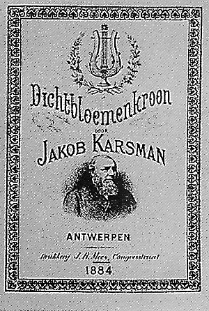 Poems by Jacob Karsman, published in Antwerp (Belgium) in 1884.